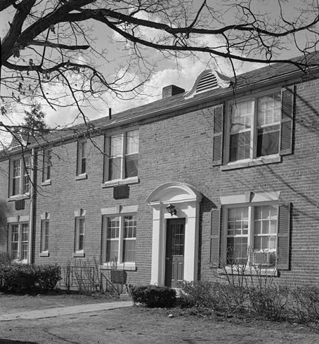 Buckingham Apartment Complex, Bounded by George Mason Drive, Henderson, Glebe, & Arlington, Virginia - cropped This file comes from the Historic American Buildings Survey (HABS), Historic American Engineering Record (HAER) or Historic American Landscapes Survey (HALS). These are programs of the National Park Service established for the purpose of documenting historic places. Records consist of measured drawings, archival photographs, and written reports. This tag does not indicate the copyright status of the attached work. A normal copyright tag is still required. See Commons:Licensing. This work is in the public domain in the United States because it is a work prepared by an officer or employee of the United States Government as part of that person’s official duties under the terms of Title 17, Chapter 1, Section 105 of the US Code. Note: This only applies to original works of the Federal Government and not to the work of any individual U.S. state, territory, commonwealth, county, municipality, or any other subdivision. This template also does not apply to postage stamp designs published by the United States Postal Service since 1978. (See § 313.6(C)(1) of Compendium of U.S. Copyright Office Practices). It also does not apply to certain US coins; see The US Mint Terms of Use. This file has been identified as being free of known restrictions under copyright law, including all related and neighboring rights. HABS} VA,7-ARL,13-16 Object location38° 52′ 30″ N, 77° 06′ 20.16″ W